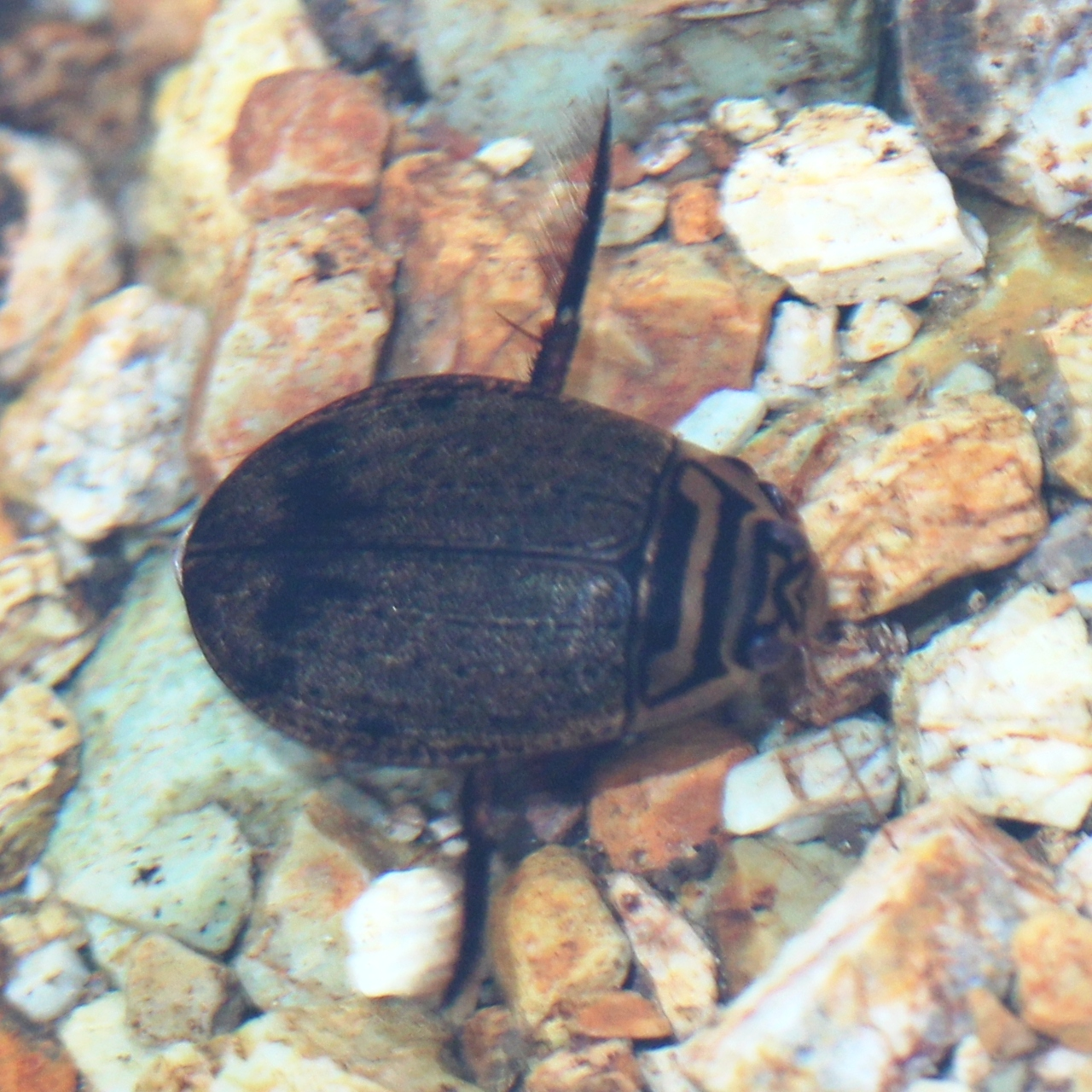 Acilius kishii in Yasyagaike of Ryōhaku Mountains